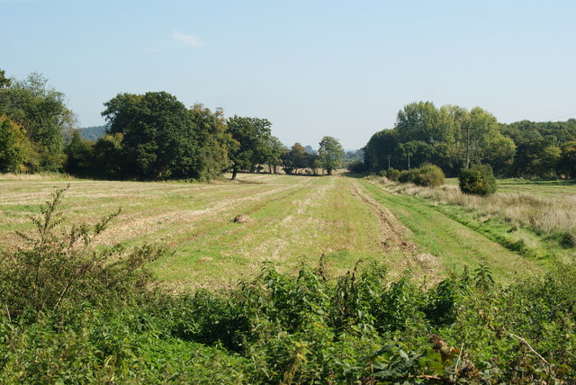 View Towards Artington, Surrey Here we have a rural landscape; fields, trees, a glimpse of the distant North Downs, and a tiny stream running into the distance on the right of picture.